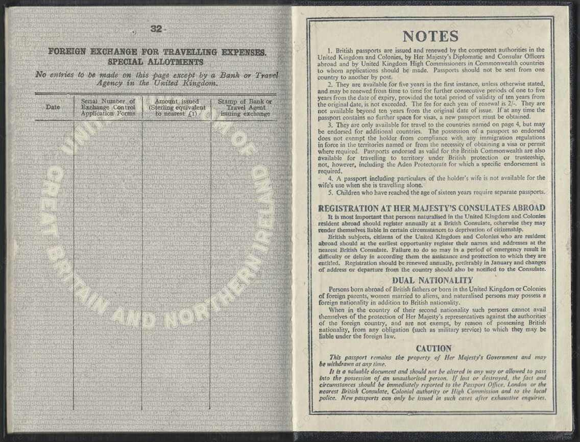 Foreign Exchange for Travelling Expenses, Special Allotment notation, Issued 1955 (Page 32 and Regulations)